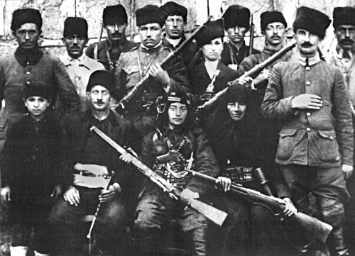 "Kara Fatma"(Fatma Seher Erden) and her colleagues